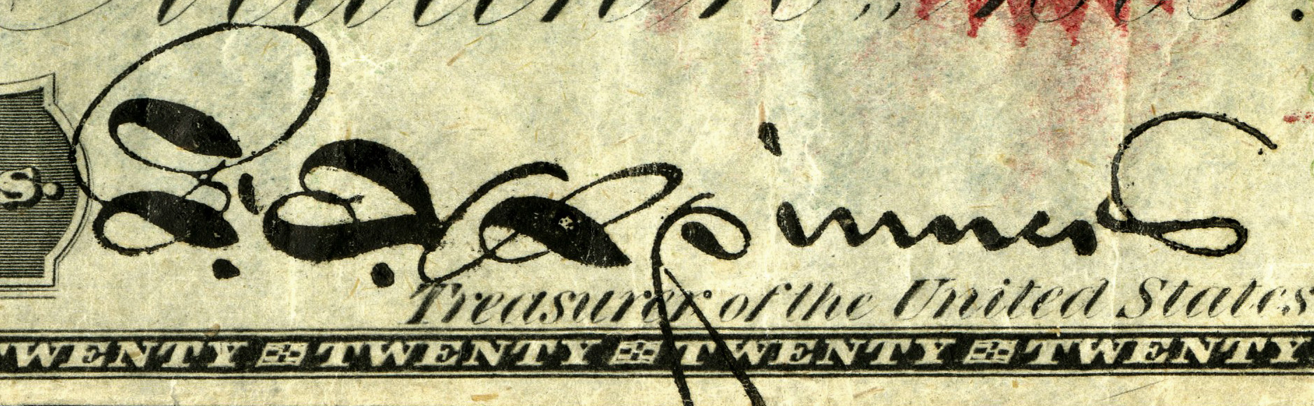 Engraved signature on U.S. Bank Notes – paper currency